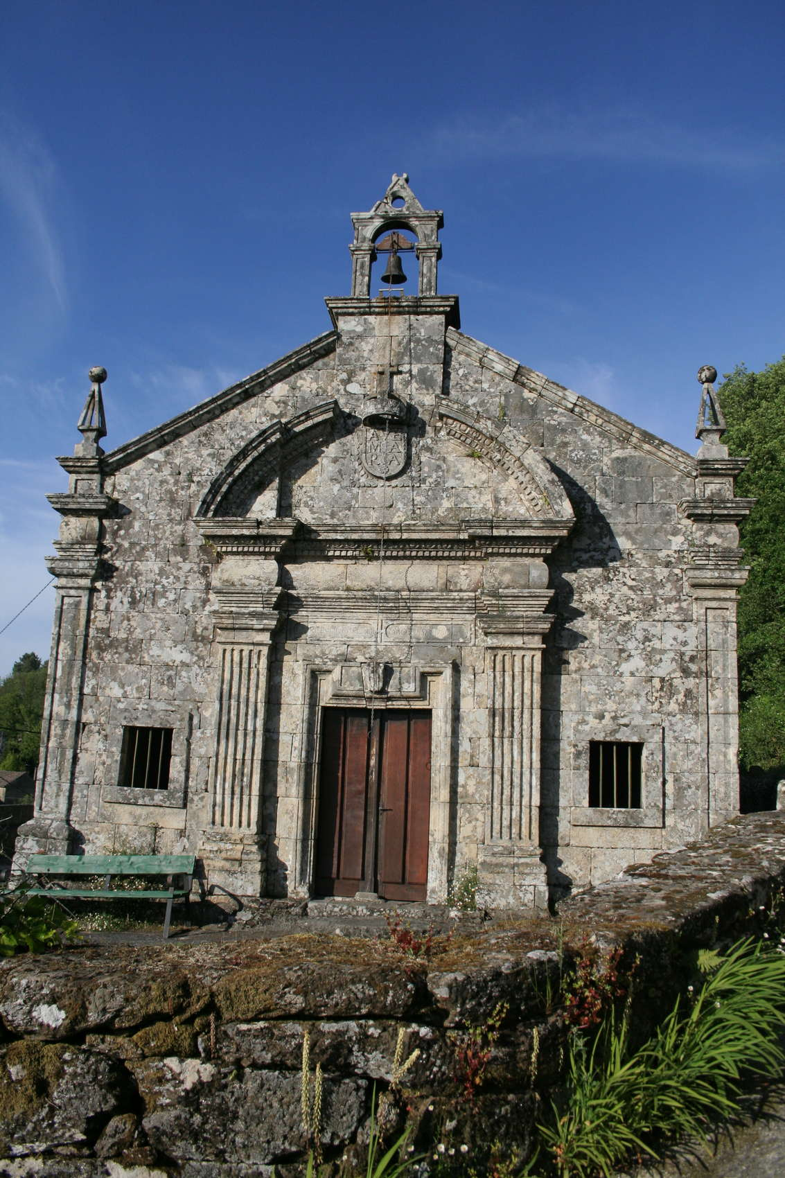 Sobrado, Poulo, Gomesende (Spain)